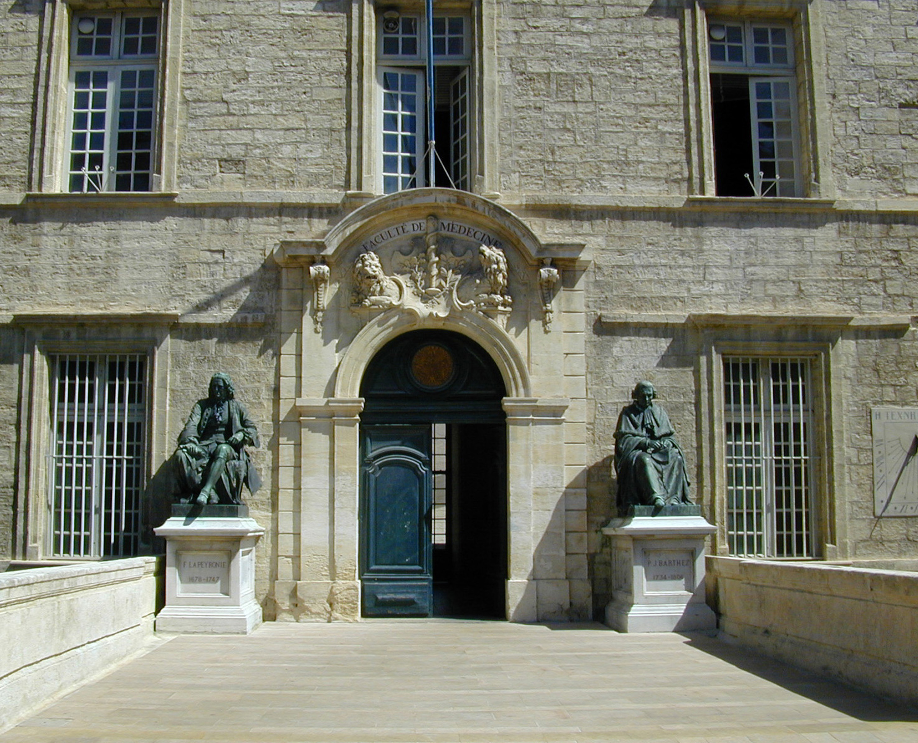 Entrance of Montpellier faculty of Medicine, France